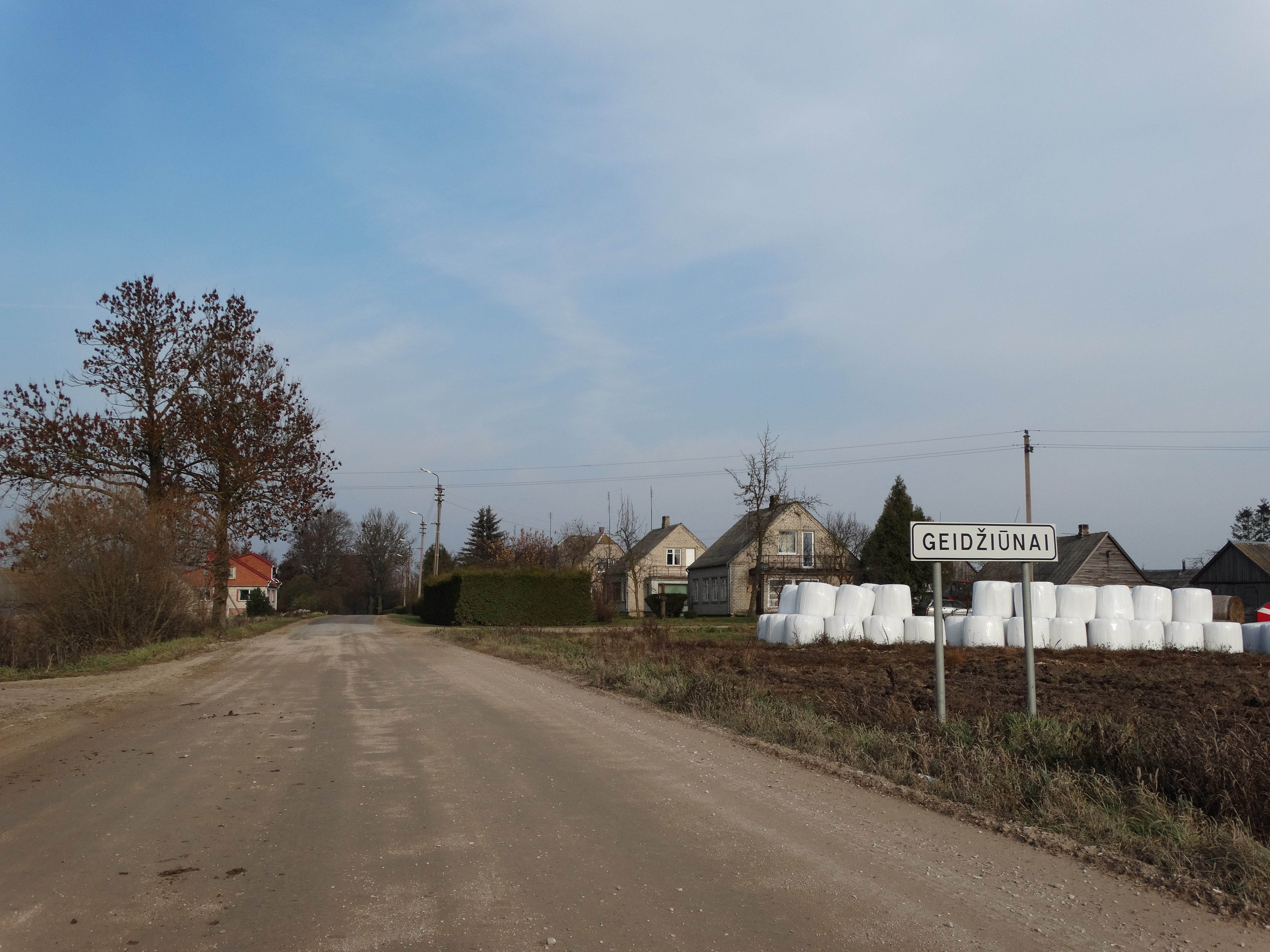 Geidžiūnai, Biržai district, Lithuania